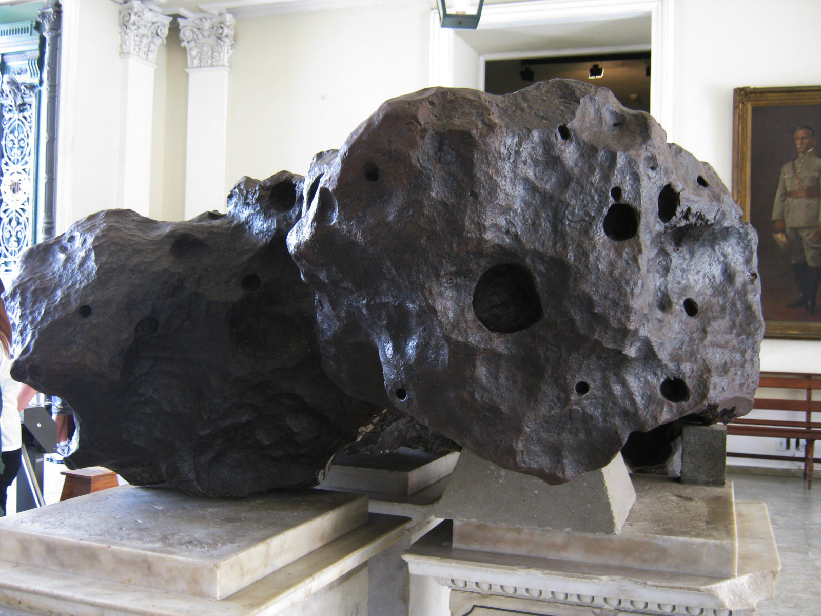 Bendegó meteorite, National Museum of Quinta da Boa Vista, Rio de Janeiro.